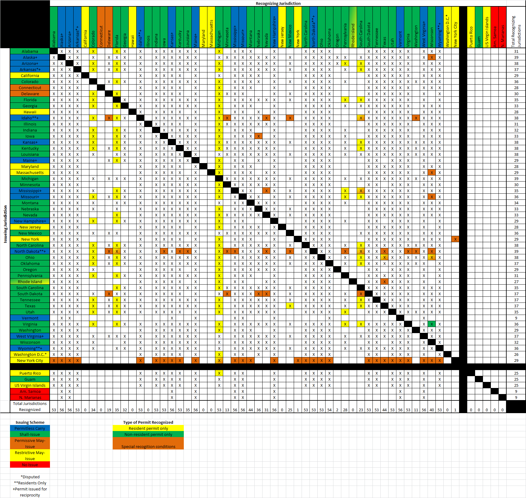 Current CCW reciprocity chart, effective 8/1/17. This data is compiled from various sources including and each states' issuing authority.